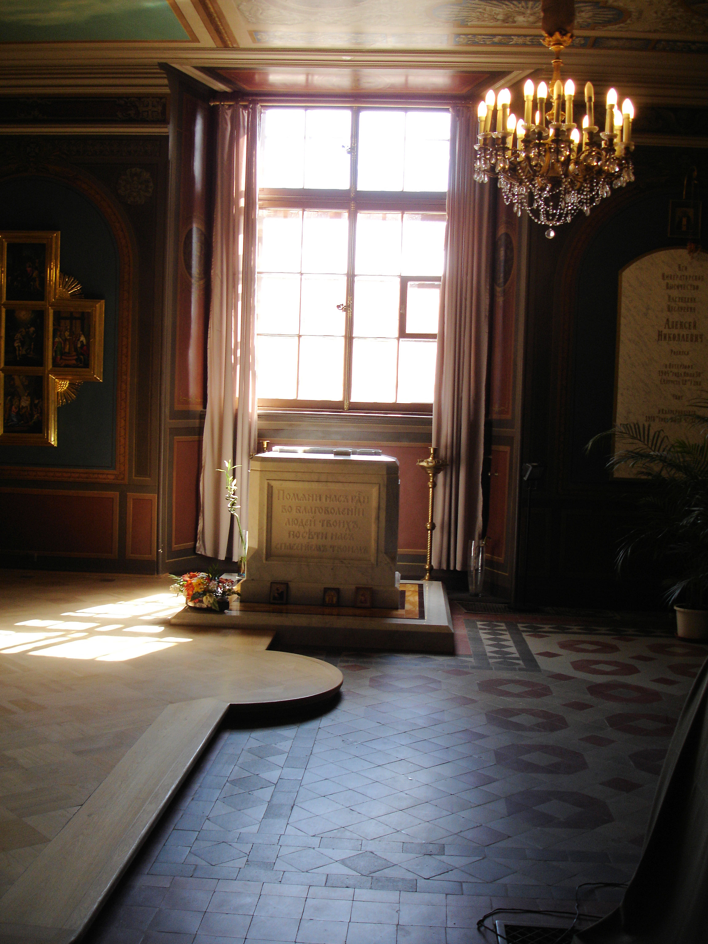 Peter and Paul Cathedral, St. Petersburg, Russia